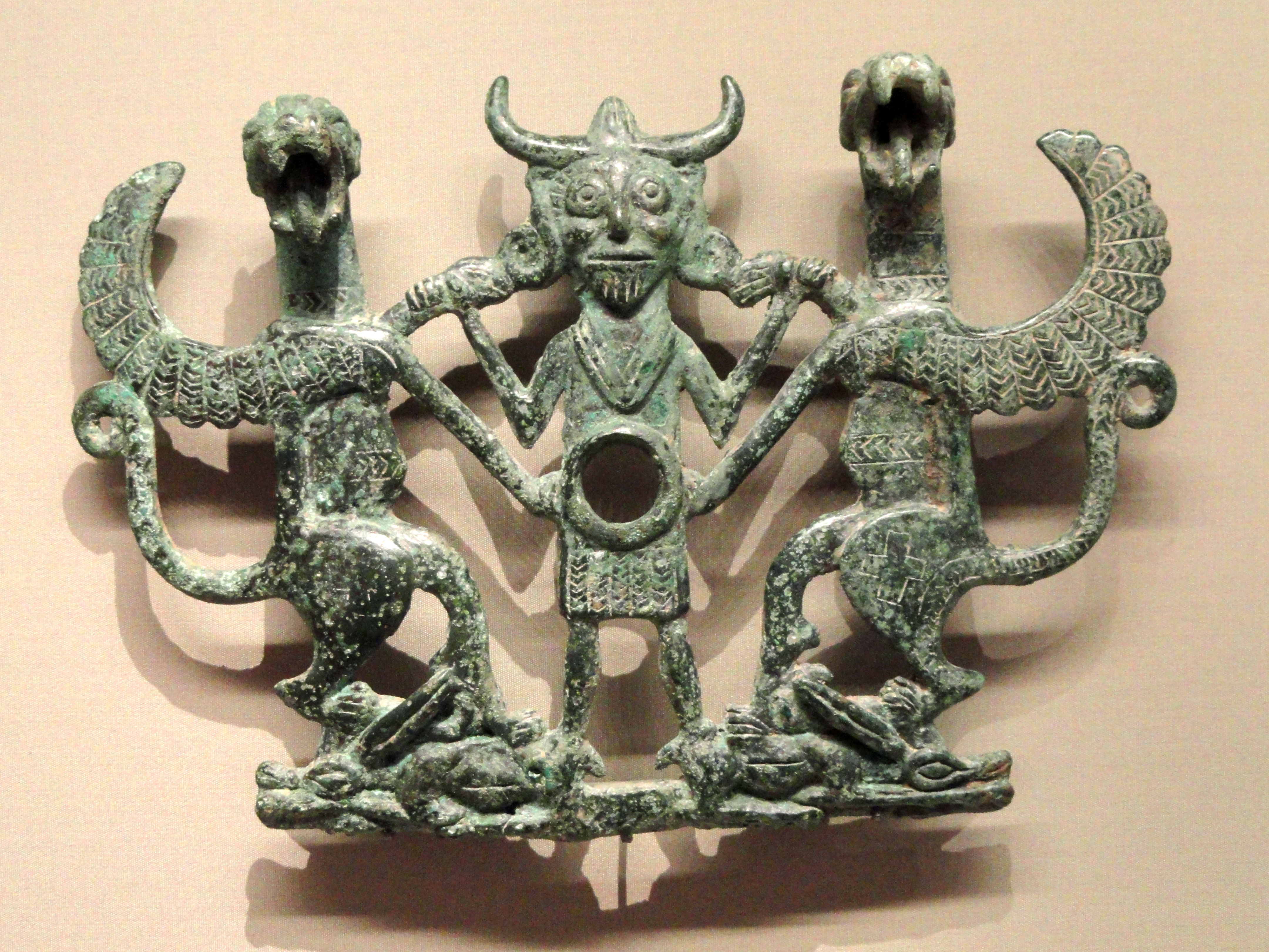 Exhibit in the Cleveland Museum of Art, Cleveland, Ohio, USA. This artwork is old enough so that it is in the public domain.